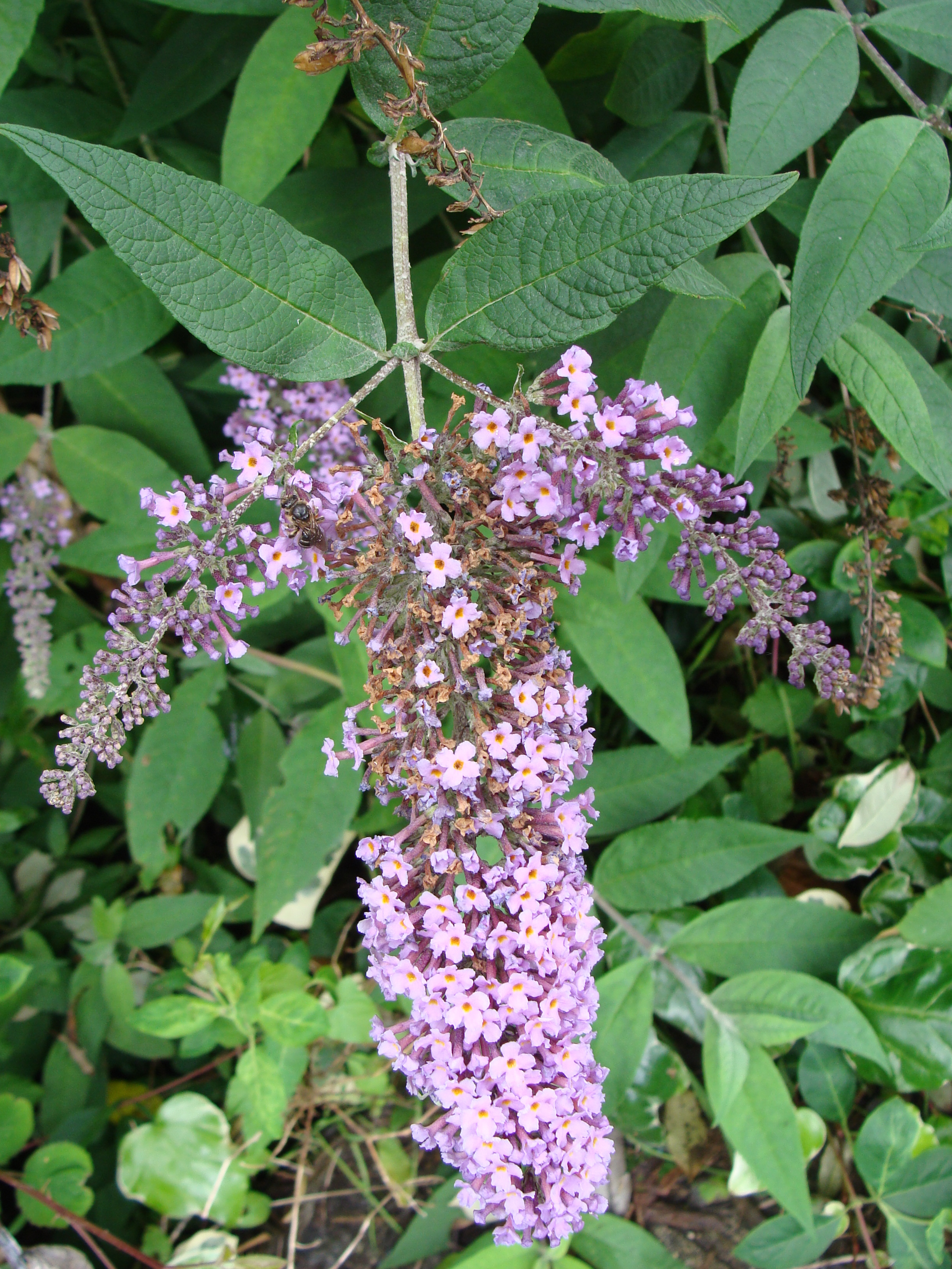 Buddleja davidii (Orange eye) in Mount Zapateira, Corunna, Galicia, España.